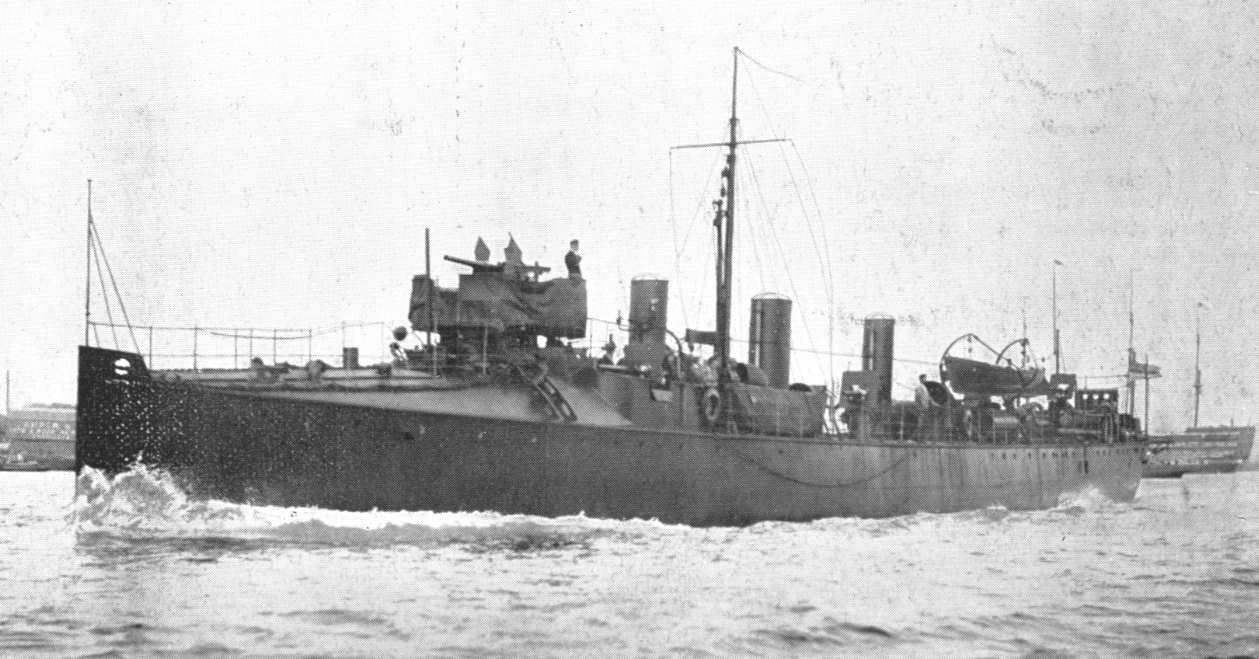 Photograph of British Sunfish class destroyer HMS Ranger.